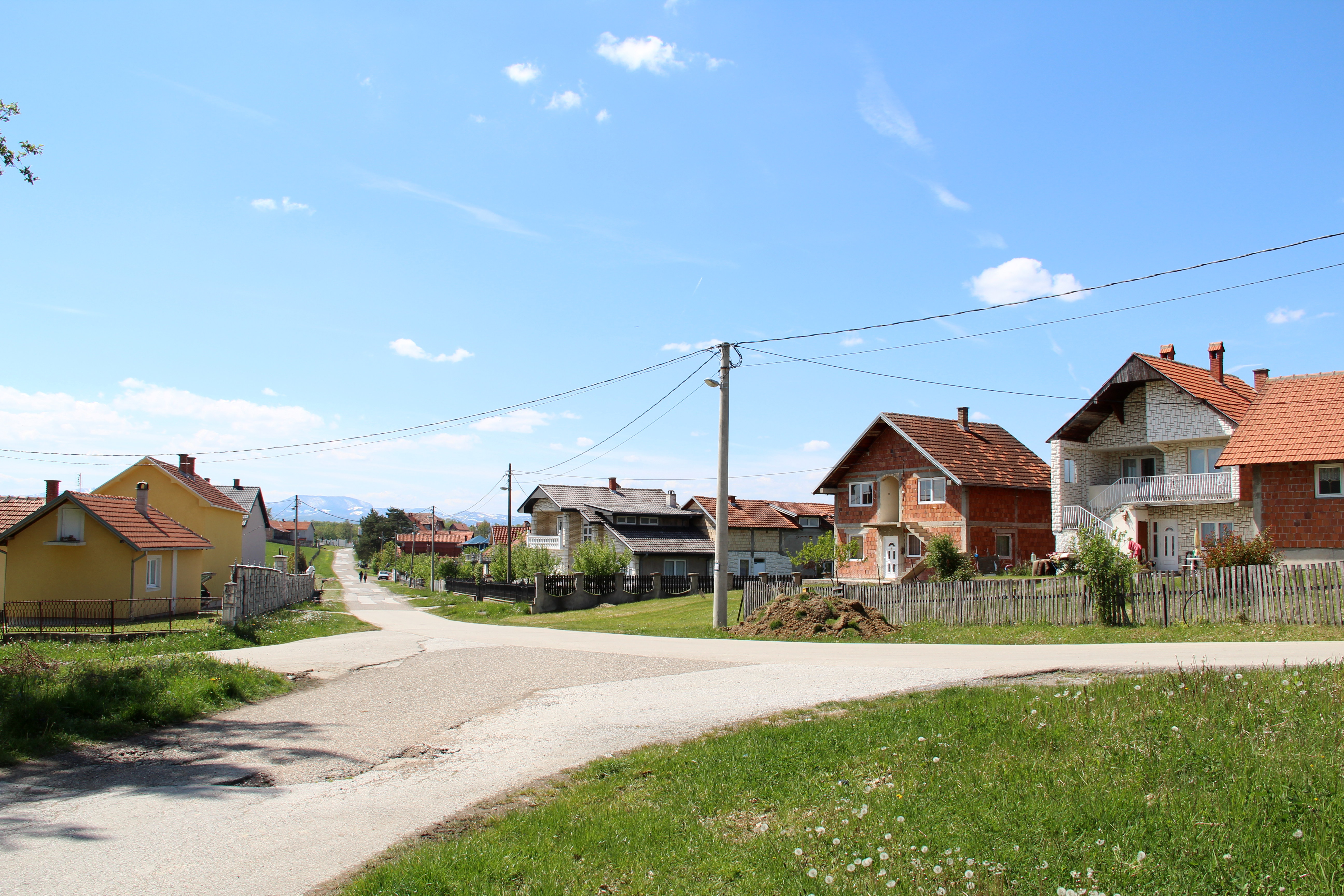 Zabrdica village - Municipality of Valjevo - Western Serbia - Panorama 1